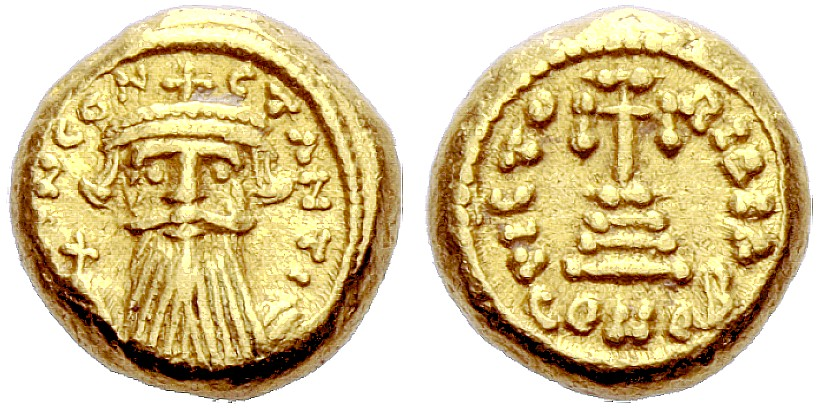 Constans II 641 –678, Carthago, 652-653, AV 4.37 g.